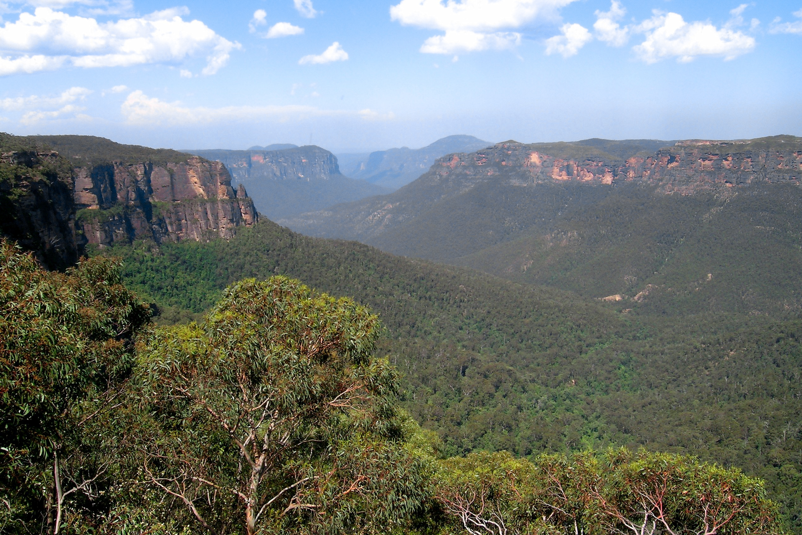 View of Grose Valley from Govetts Leap, outside Blackheath, Blue Mountains, NSW, Australia